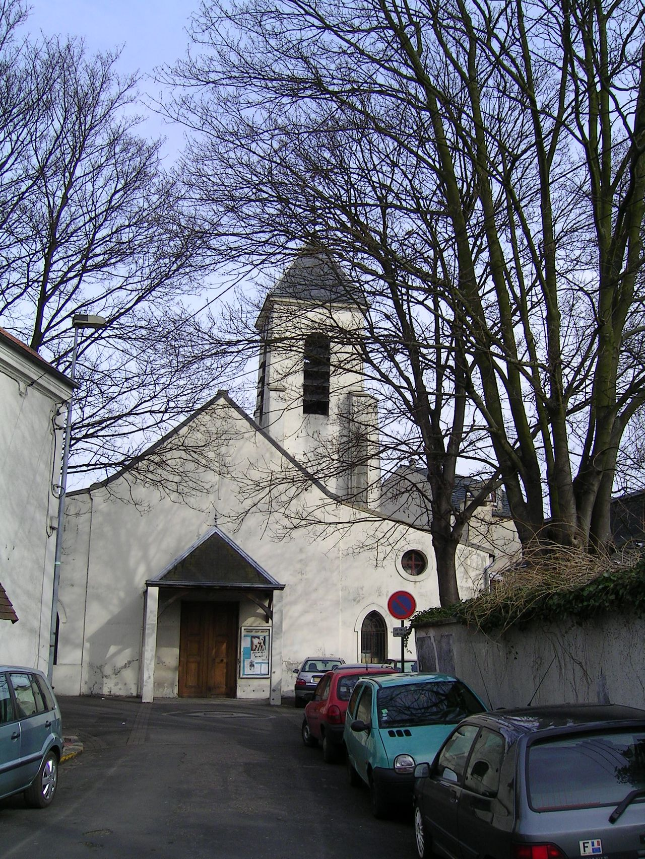 Eglise Saint-Martin aujourd'hui Photo personnelle (own work) de Marianna